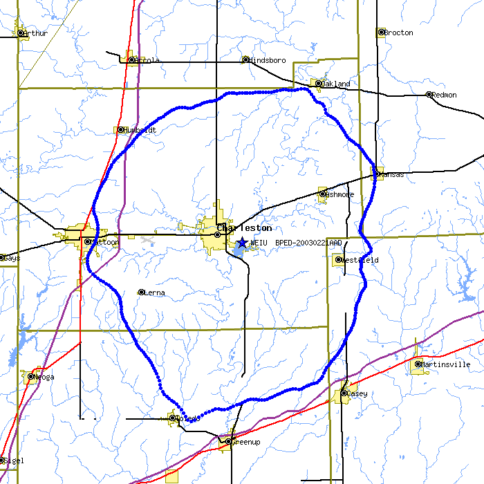 Image is from FCC (Federal Communications Commission)